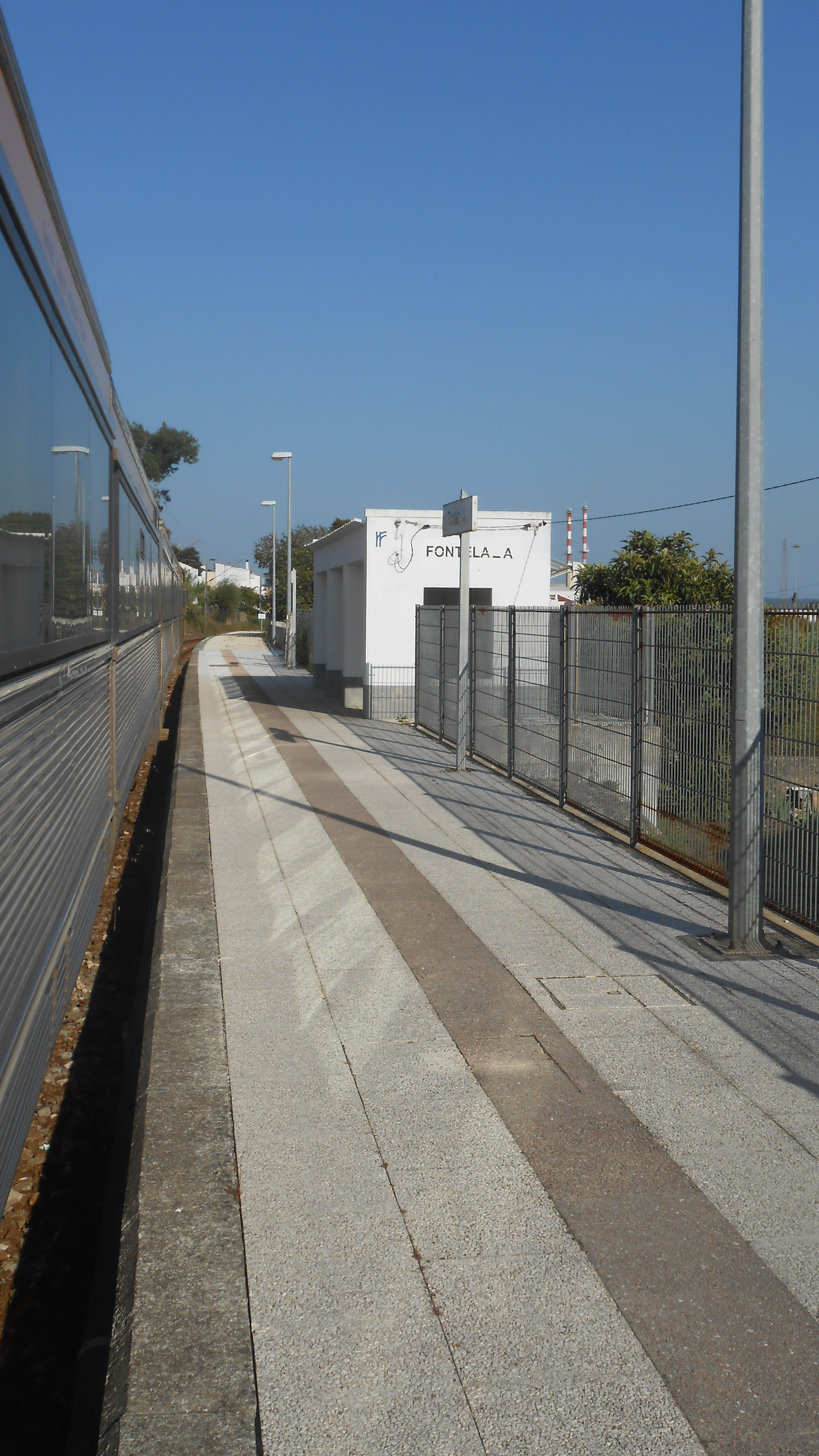 The Fontela-A railway stop at the Linha do Oeste.